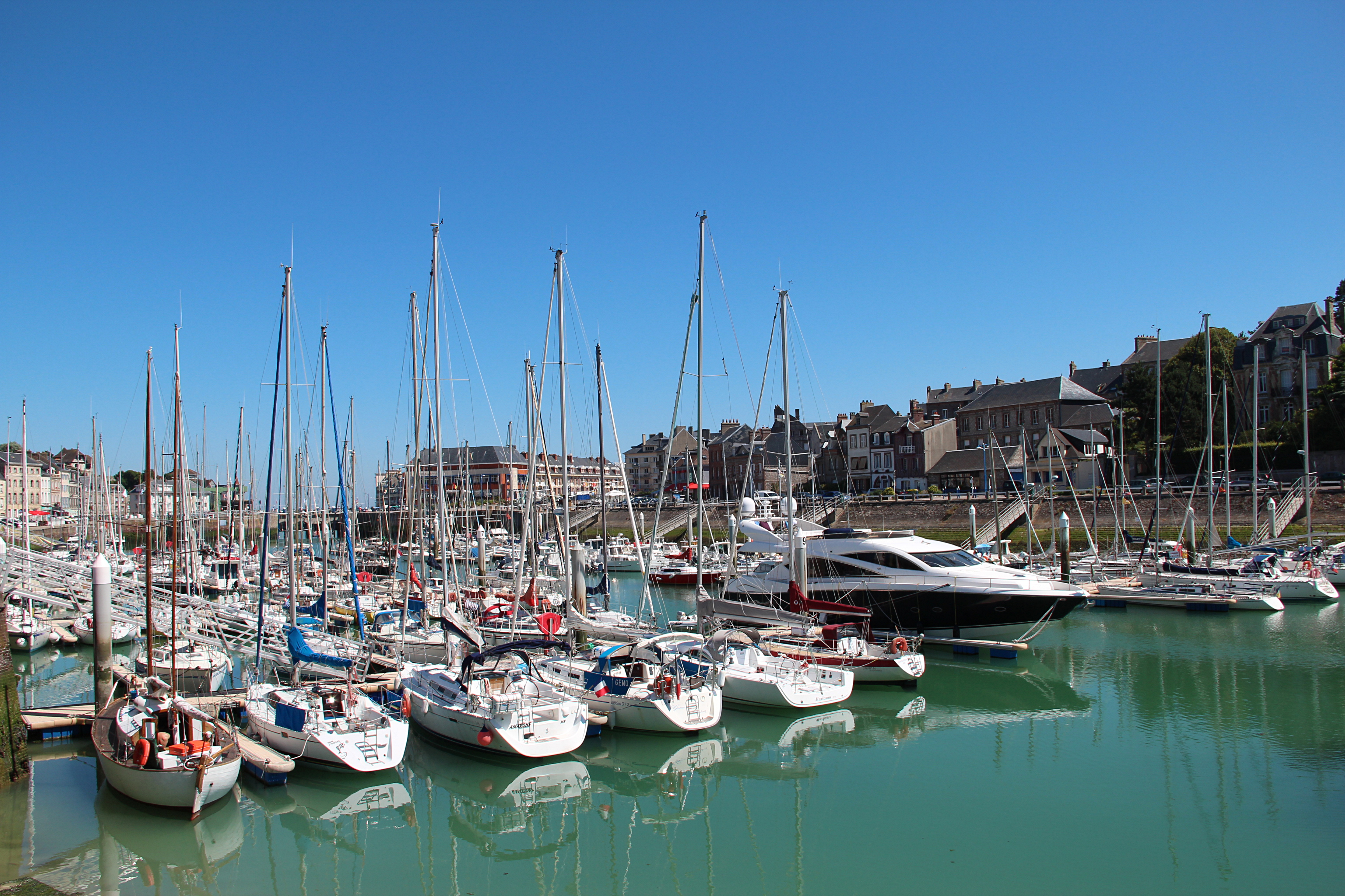 Saint-Valery-en-Caux - Seine-Maritime) - France), the port and dowwntown.